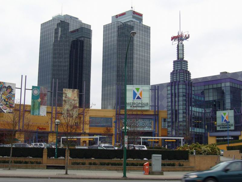 Metrotown